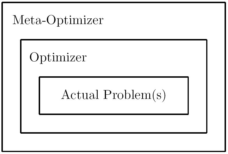 Meta-optimization concept in which one optimization method is used to tune the behavioural parameters of another optimization method when used for optimizing one or more actual problems.